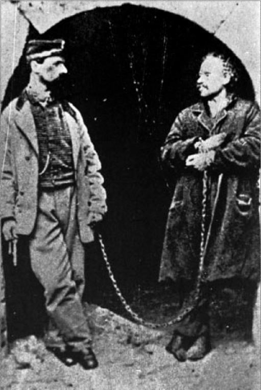 Nunzio Tamburin, italian brigand chained